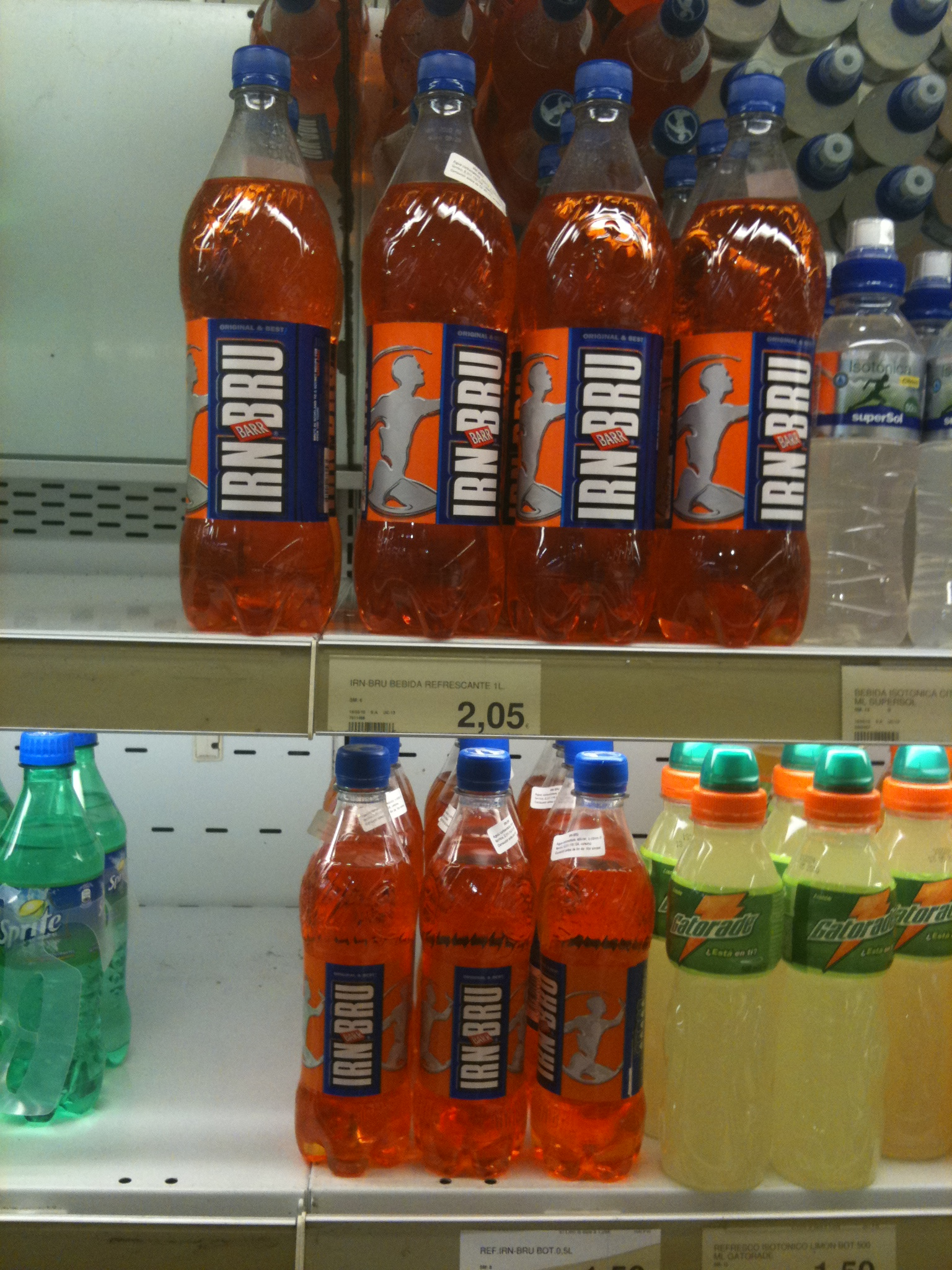 Irn-Bru